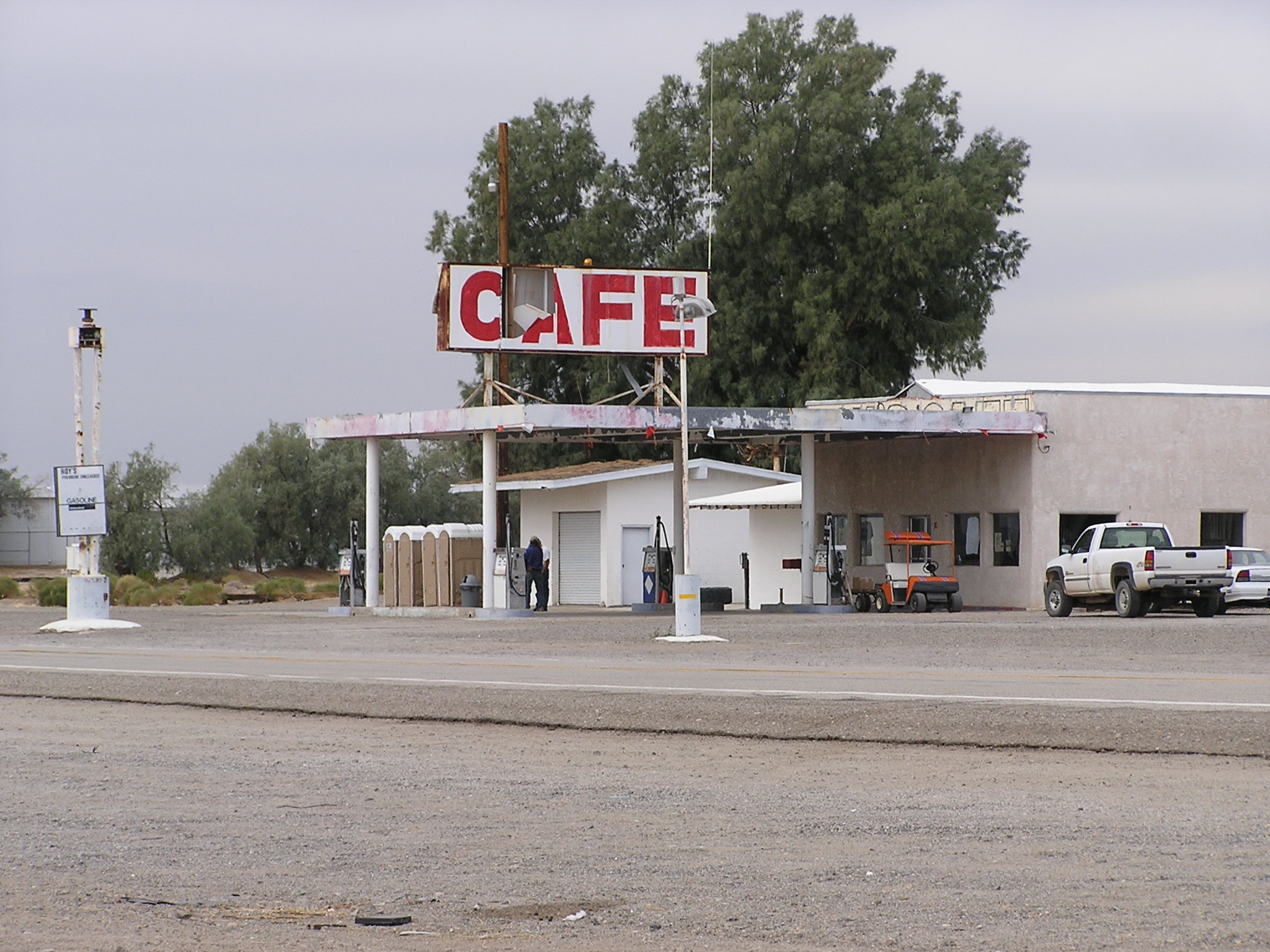 Abandoned gas station and cafe in Amboy, California